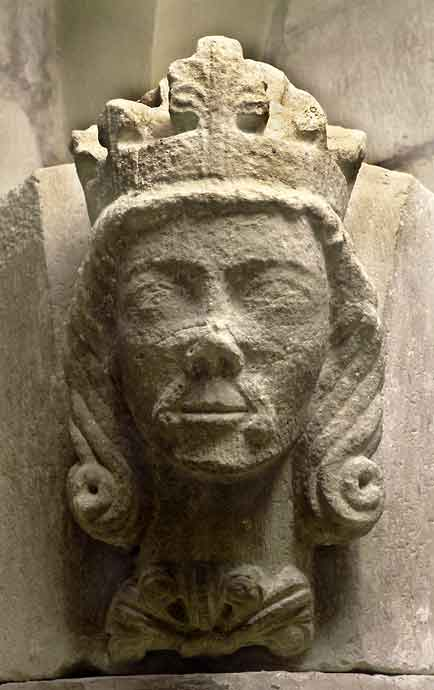 Contemporary stone bust of King Waldemar of Sweden as identified by Prof. Jan SvanbergPlace: Skara Cathedral, Sweden